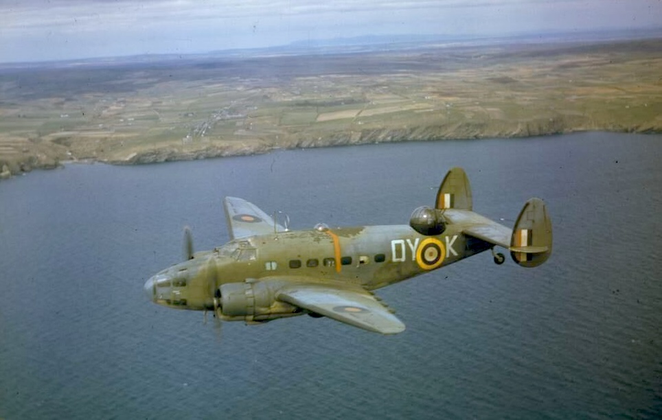 A Royal Air Force Lockheed Hudson Mark V (s/n AM853, 'OY-K') of No. 48 Squadron RAF based at Wick, Caithness (UK), in flight along the Scottish coastline.